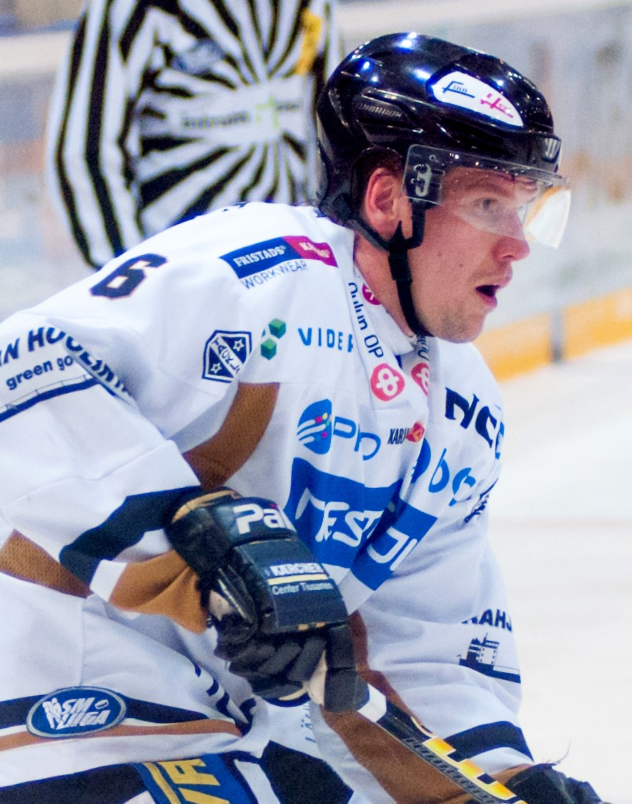 Ilkka Mikkola of Oulun Kärpät playing against SaiPa Lappeenranta in Lappeenranta, Finland.